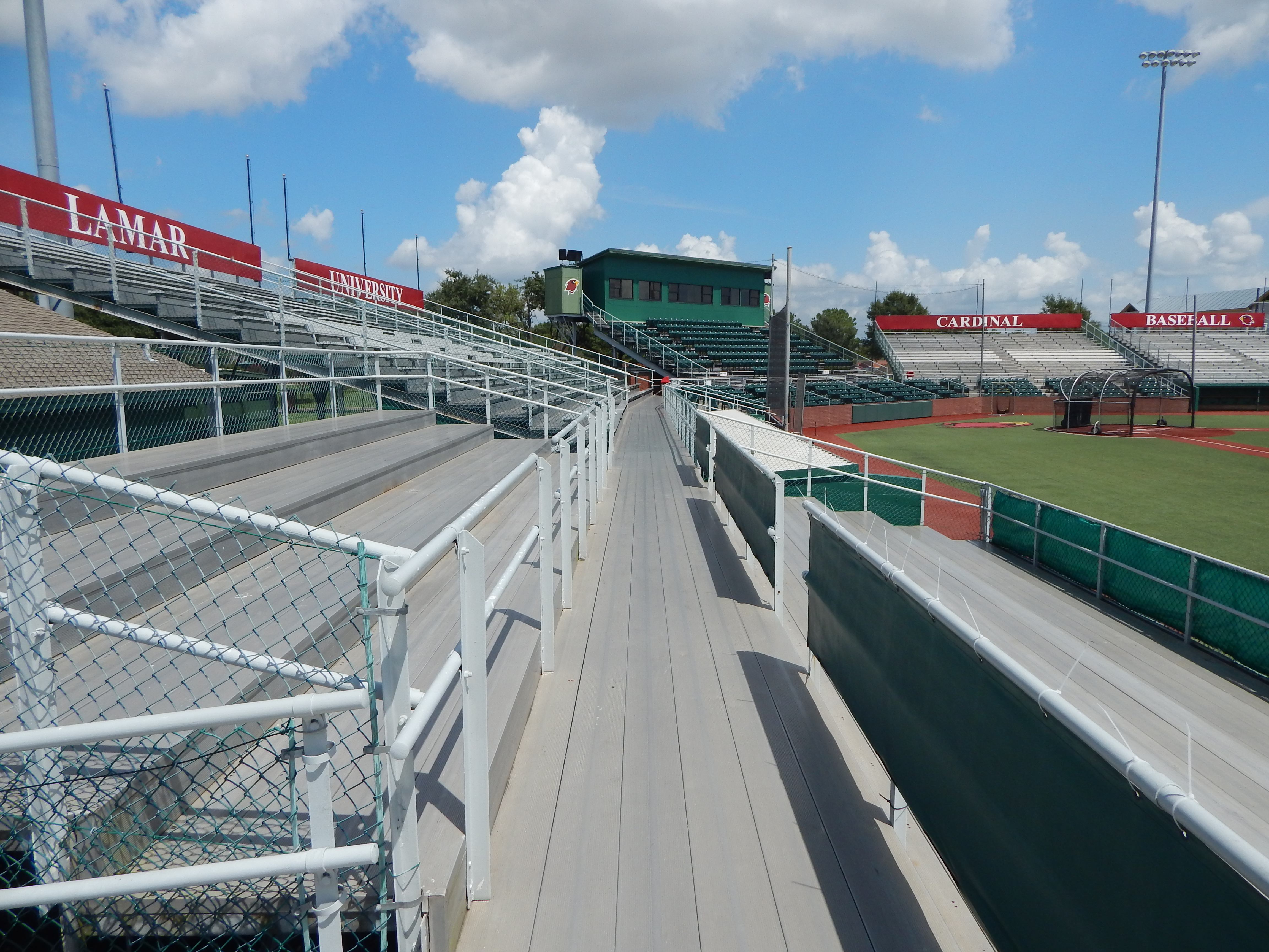 Vincent-Beck Stadium grandstands from the right field seats